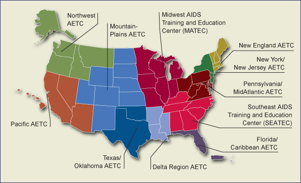 Map of AETCs